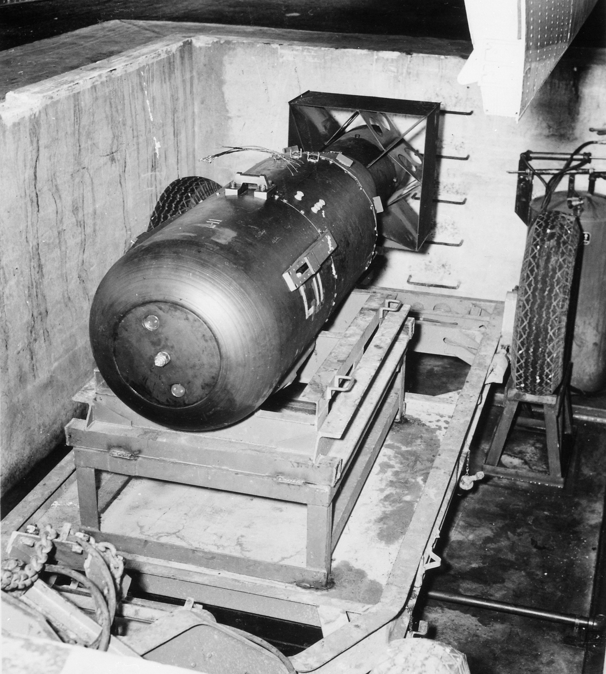 Atombombe. LB (Little Boy) unit on trailer cradle in pit on Tinian island, before being loaded into Enola Gay's bomb bay. [Note bomb bay door in upper right-hand corner.] , 08/1945. ARC Identifier: 519394.